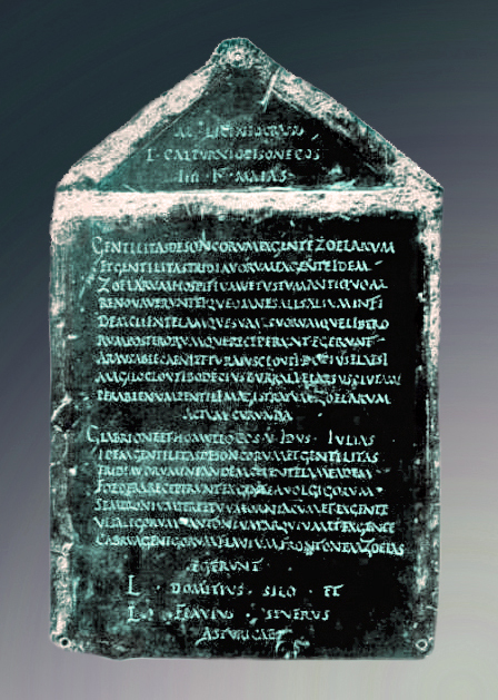 Zoelas table